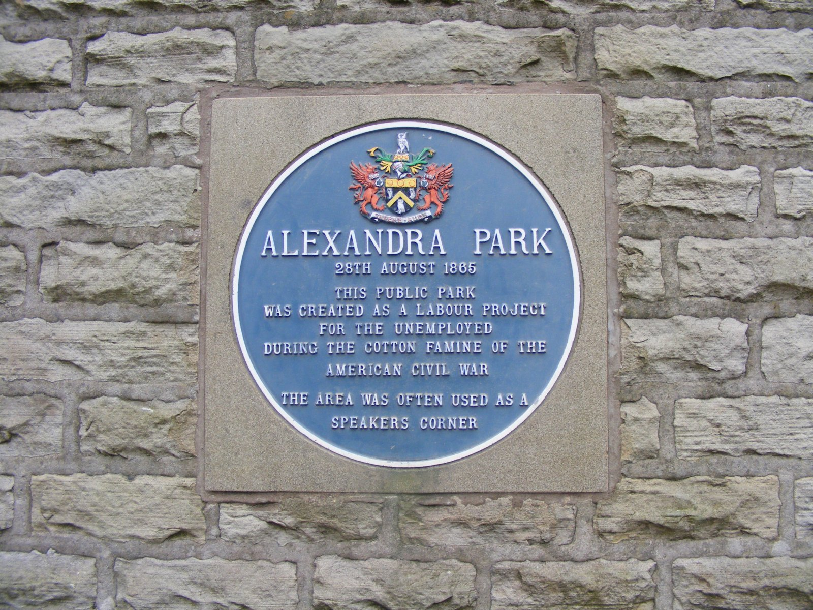 A blue plaque, seen on the side of the North Lodge in Oldham's Alexandra Park, Greater Manchester England. This blue plaque giving an insight into how the park came to be.